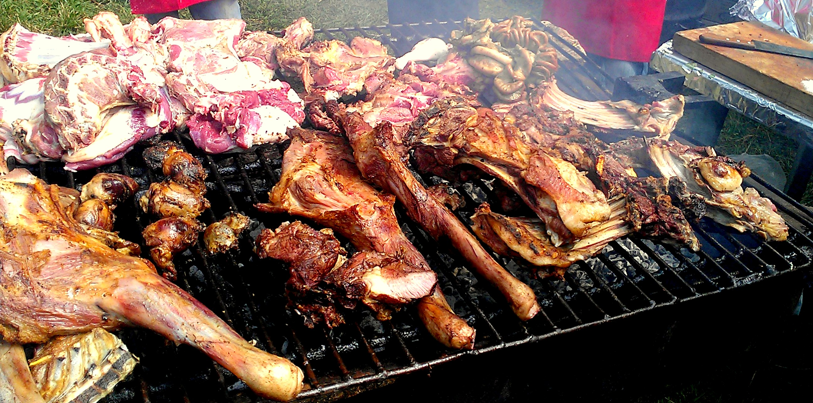 Koroga fest is the perfect blend of great live music and open grilled meat on a Sunday afternoon. This is an image of food from Kenya